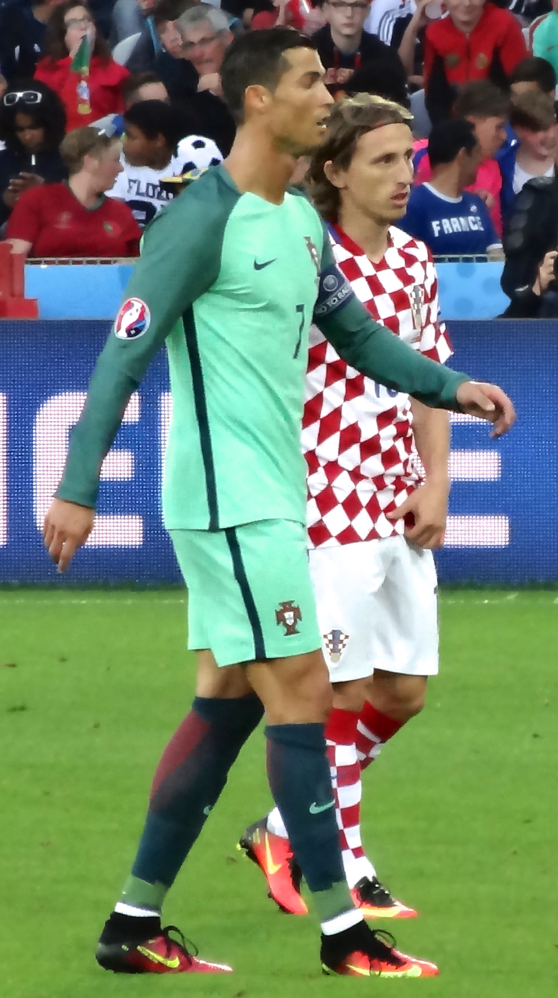 Cristiano Ronaldo & Luka Modrić (Euro 2016)